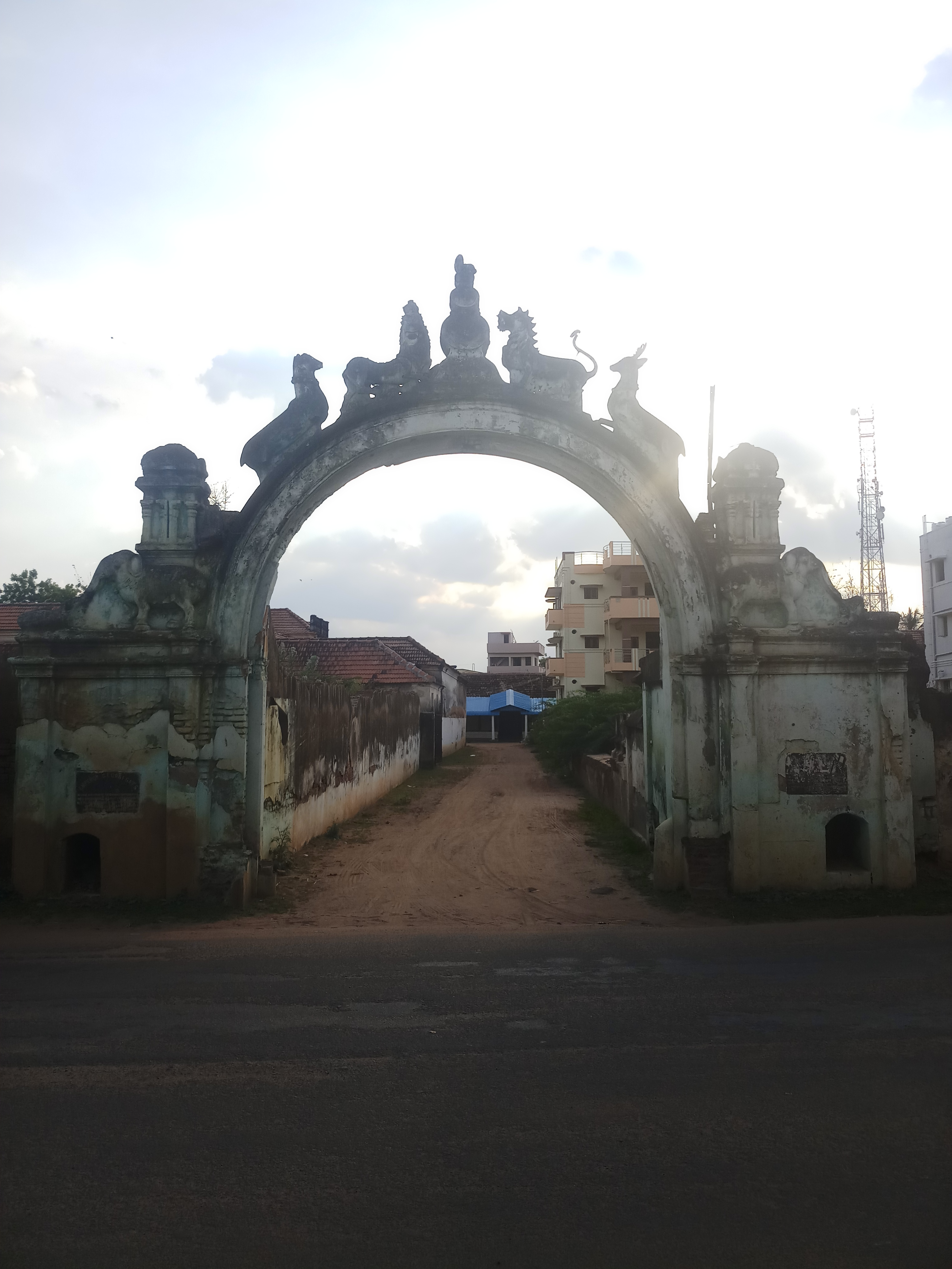 Emperor George Gate, located in Devakottai Vattanam Road